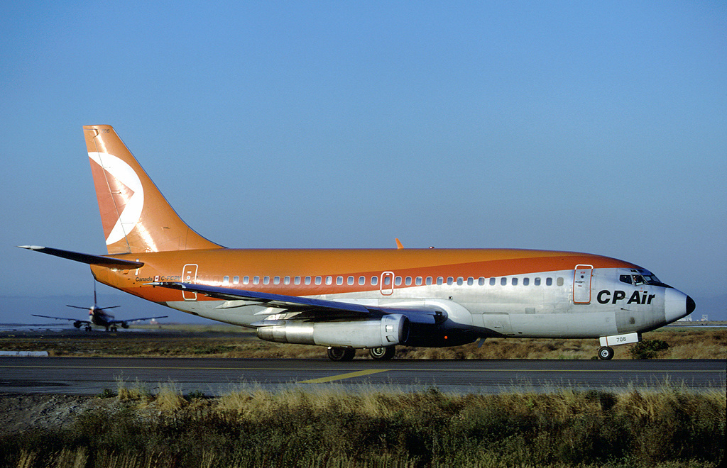 CP Air Boeing 737-217 at San Fransisco International Airport